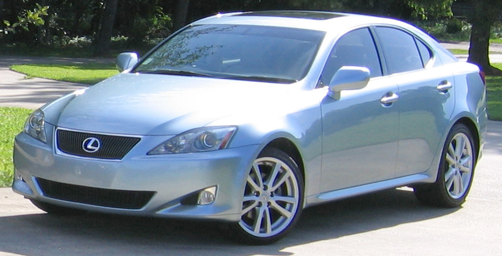 Lexus IS 250; modified version of original photo (cropped and mirrored)